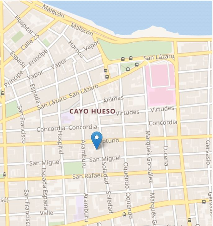 Cayo hueso, Havana. Map